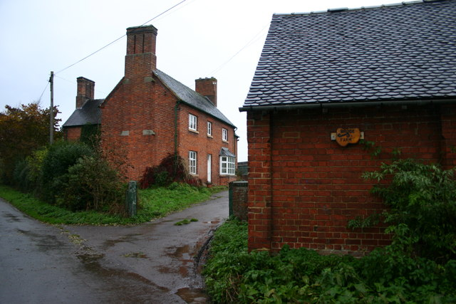 Brook Farm, near Gayton Brook Farm near to Gayton. A small brook runs alongside the lane and the edge of the farm.